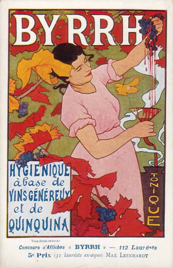 Poster for Byrrh vermouth